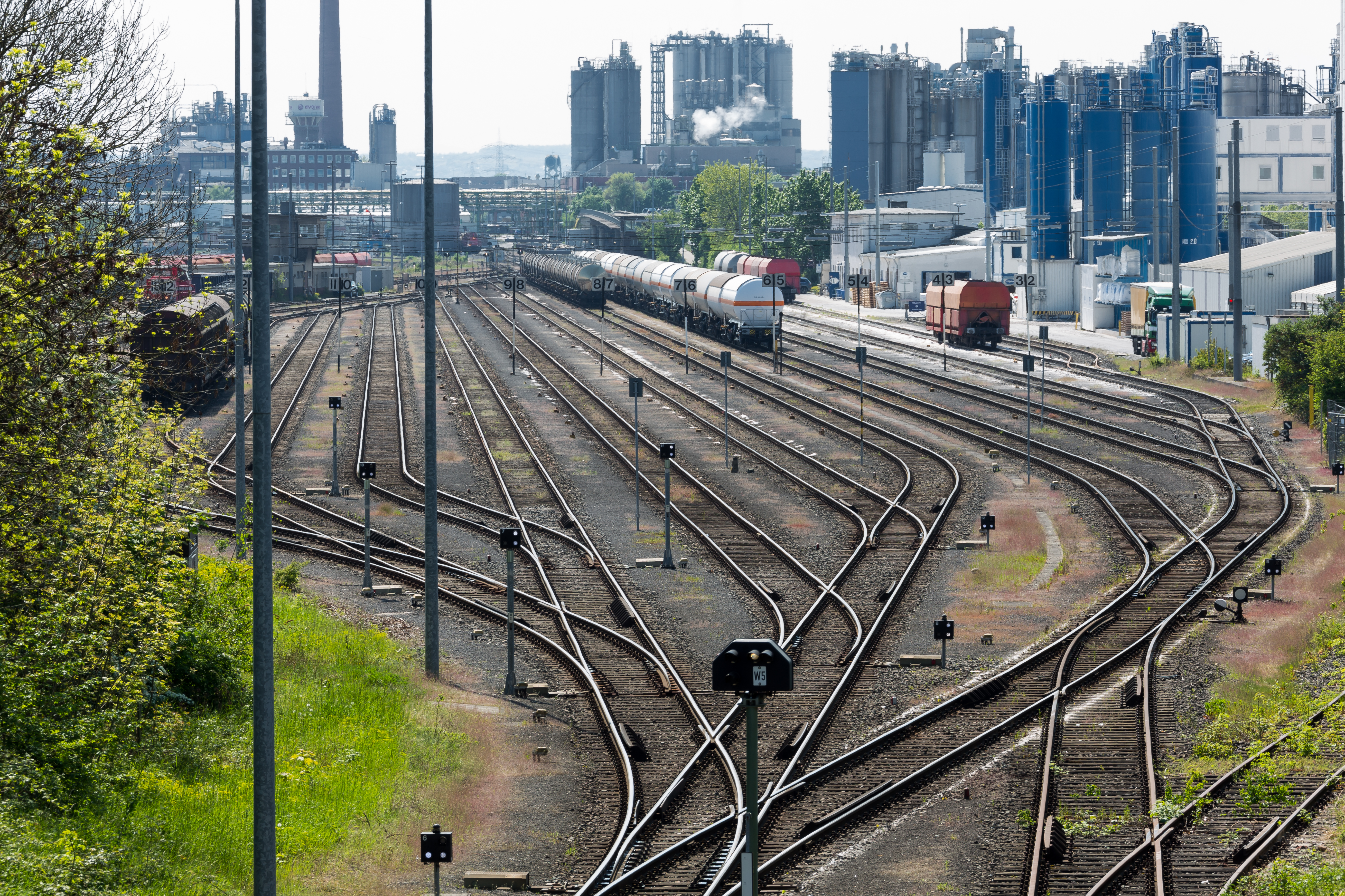 Godorf, Köln, Germany: Marshalling yard of Häfen und Güterverkehr Köln near Godorf Port